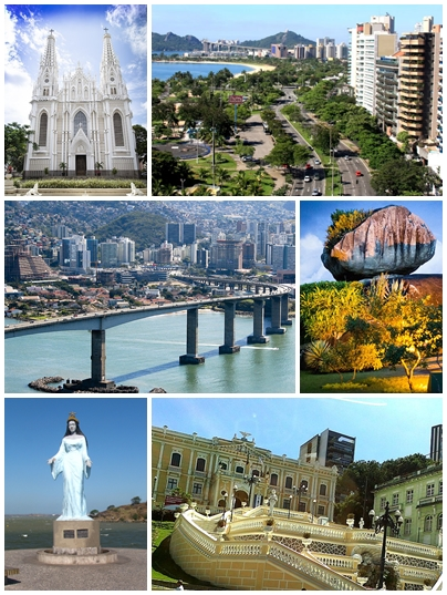 Images of Vitória, Espírito Santo, Brazil.